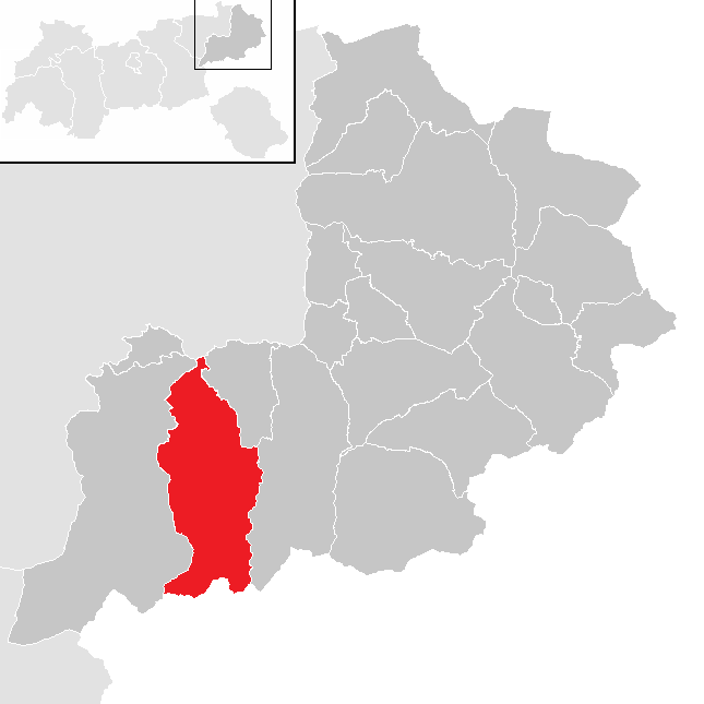 District Kitzbühel